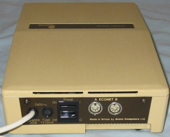 Acorn AEH20 Econet bridge (back).The Acorn AEH20 Econet Bridge is mounted in one of Acorns classic "cheese wedges". An Econet Bridge connects two Econets together.In the picture of the back of the bridge, you can see the sockets for Econet A and Econet B, for the two econet networks to be connected.The picture of the bottom, only shows the serial number on the white paper and a reset button (I assume) where most "cheese wedges" have a ribbon cable.The picture of open bridge, shows the standard "cheese wedge" Power Supply at the front, with the main circuit board behind it.The last picture is a close up of the circuit board showing the 2 x MC68854P lin drives in the bottom left, The Bridge ROM is in the top right with the 6502 CPU next to it. In the bottom right is an 8K RAM chip and to the left is a set of links to set the network number for the two networks.